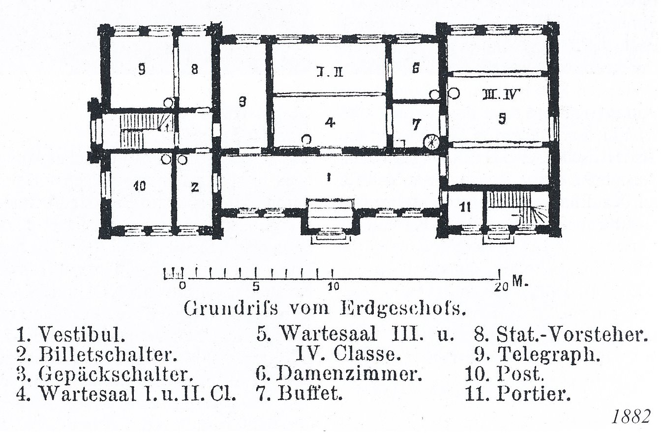 Plan from ground floor of train station in Bad Hersfeld, in 1882